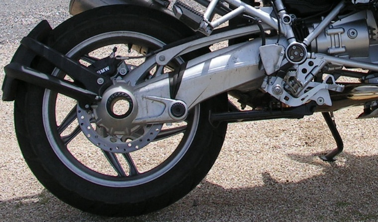 BMW R1200GS gearbox and paralever suspension / final drive. Note the hole through the final drive in the rear wheel.